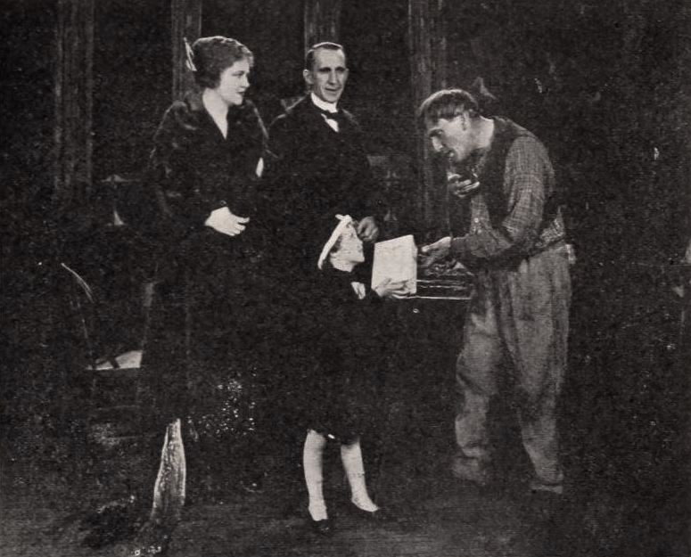 Still from the American drama film The Sign of the Rose (1922) with Helene Sullivan (1903–1982), an unidentified actor, child actress Jeanne Carpenter, and George Beban, on page 51 of the January 21, 1922 Exhibitors Herald.